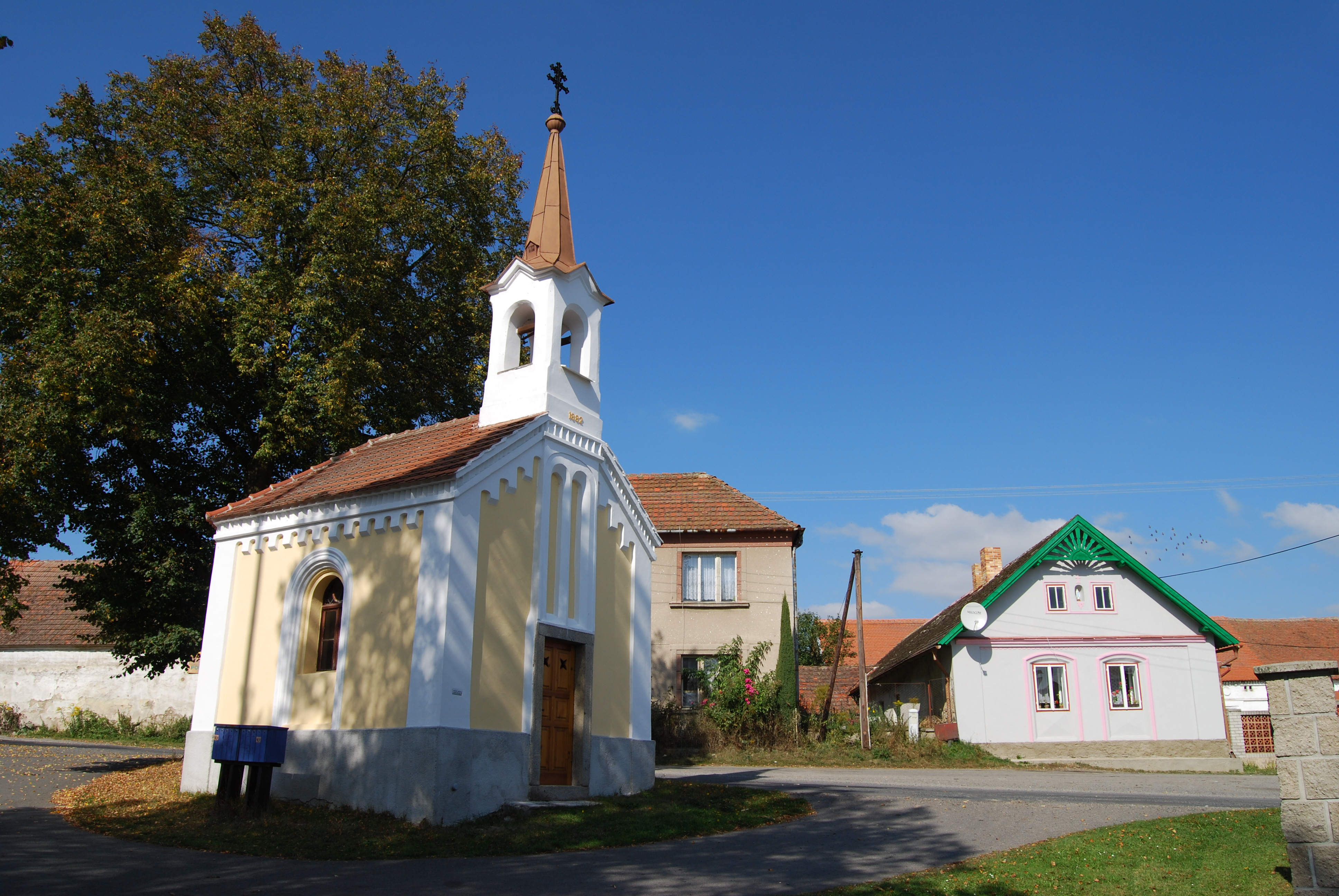 Village Lom in Strakonice District, Czech Republic. Chapel.